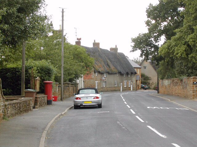 East Haddon. Main street in East Haddon, looking towards the West.